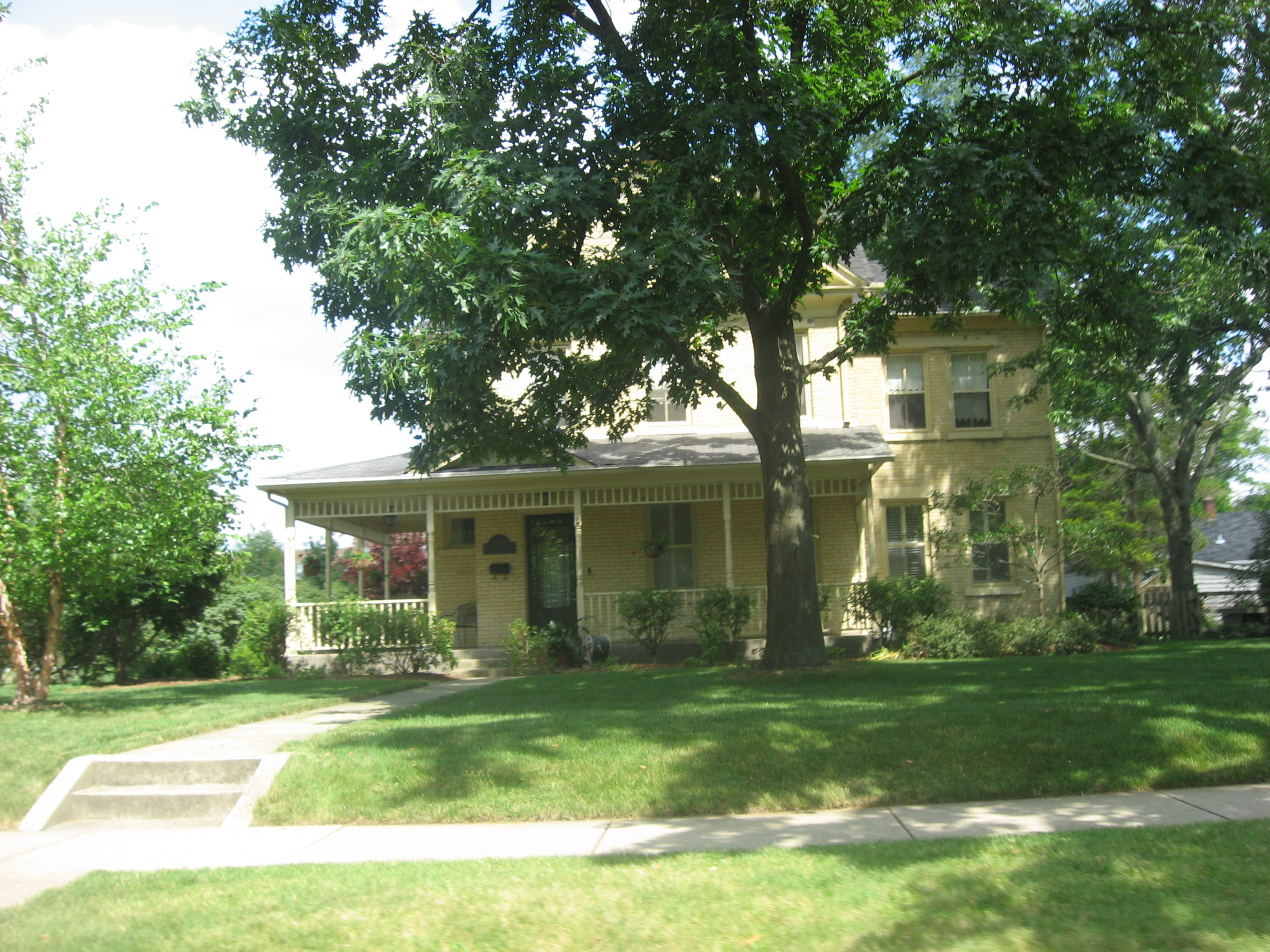 Front of the Maurice Egan House, located at 1136 N. Notre Dame Avenue in South Bend, Indiana, United States. Built in 1889, it is listed on the National Register of Historic Places.